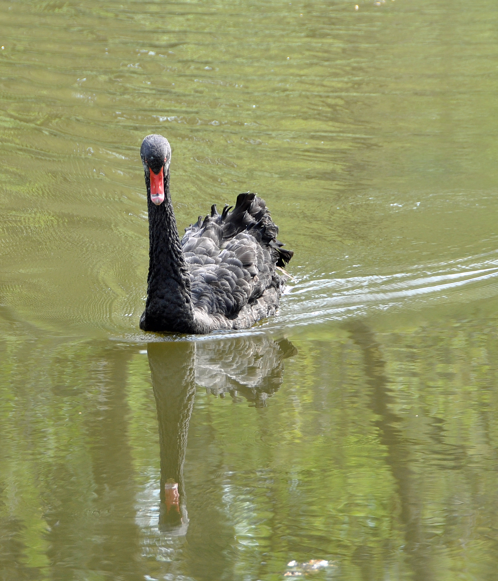 Black Swan, captive, Belgium